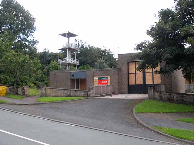 What do you do with an old fire station? Well, what would you do with it? On a par with Compo's question "How do you get marmalade off a ferret?" On Station Road, Rothbury.